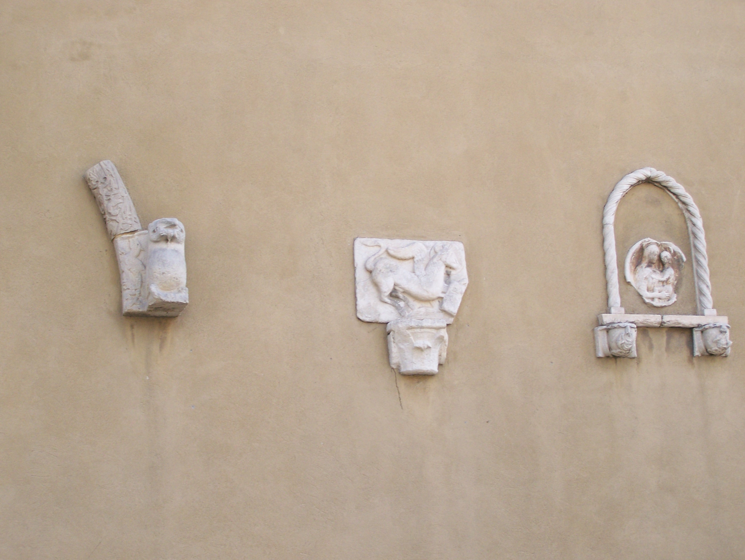 rests of the ancient church of Corbetta (MI) - Italy